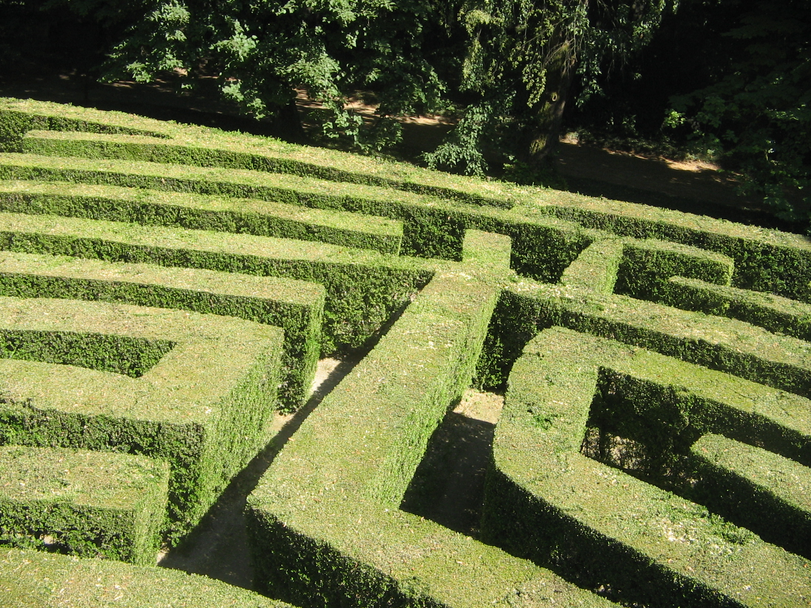 The labyrinth of villa Pisani, Stra (Venice, Italy)